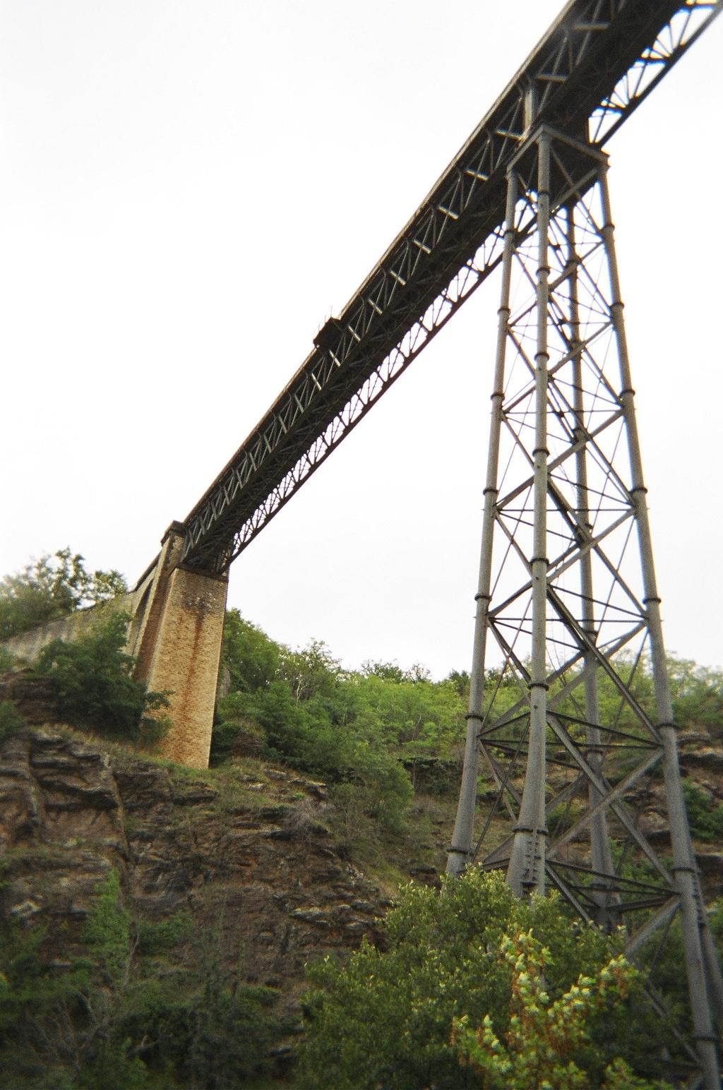 Rouzat viaduct, cast iron railway bridge (built/designed by Gustave Eiffel) in the Massif Centrale, France